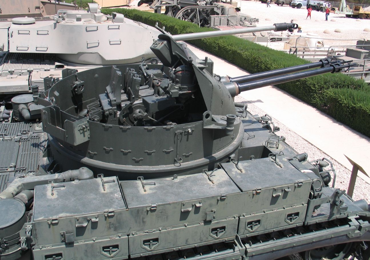 M42 Duster SPAAG in Yad la-Shiryon Museum, Israel. Mislabeled as M4A3.